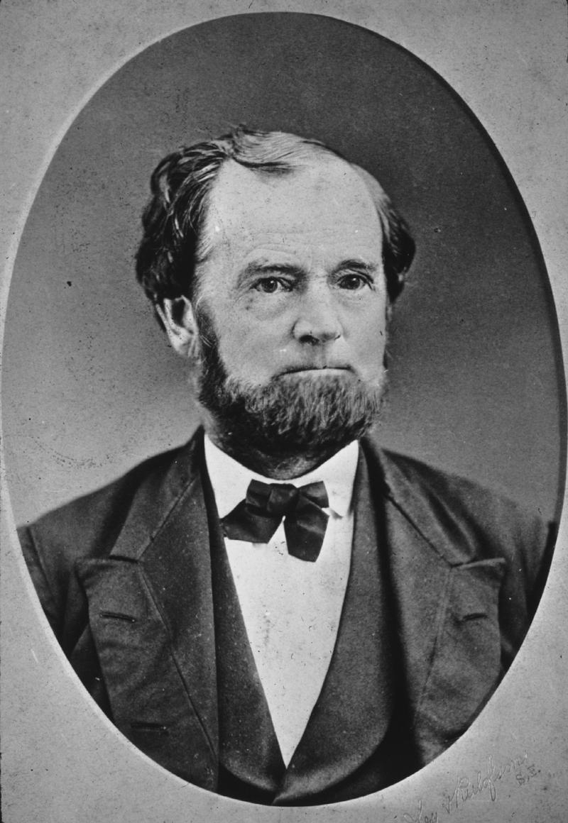 Portrait of Alonzo Horton, founder of Horton's Addition (New San Diego).